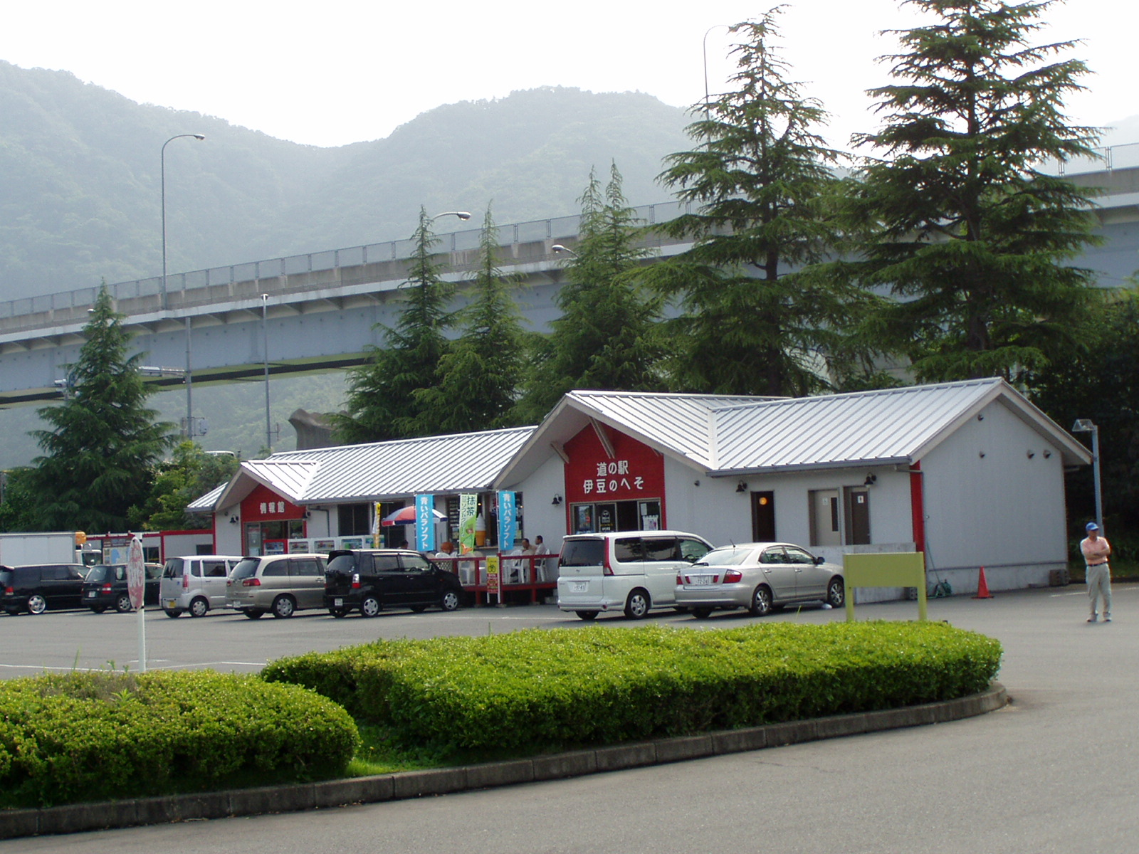 Michinoeki"Izunoheso" in Izunokunishi Shizuoka Japan.